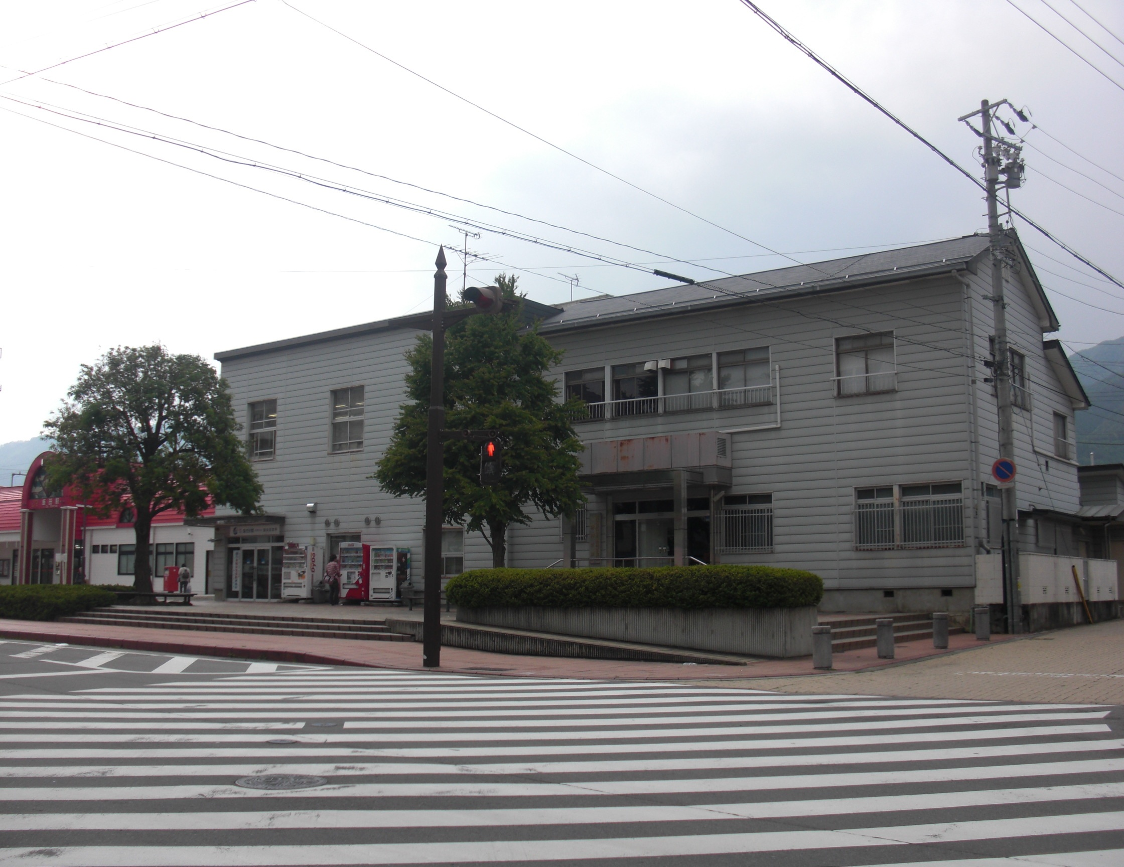 This is the Central Japan Railway Company Iida Branch in Iida, Nagano, Japan.